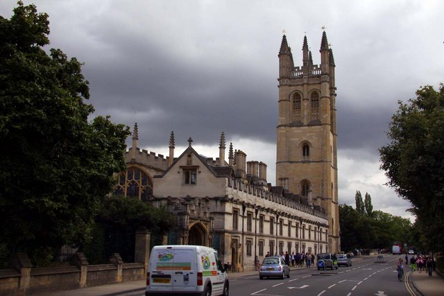 Magdalen College in Oxford